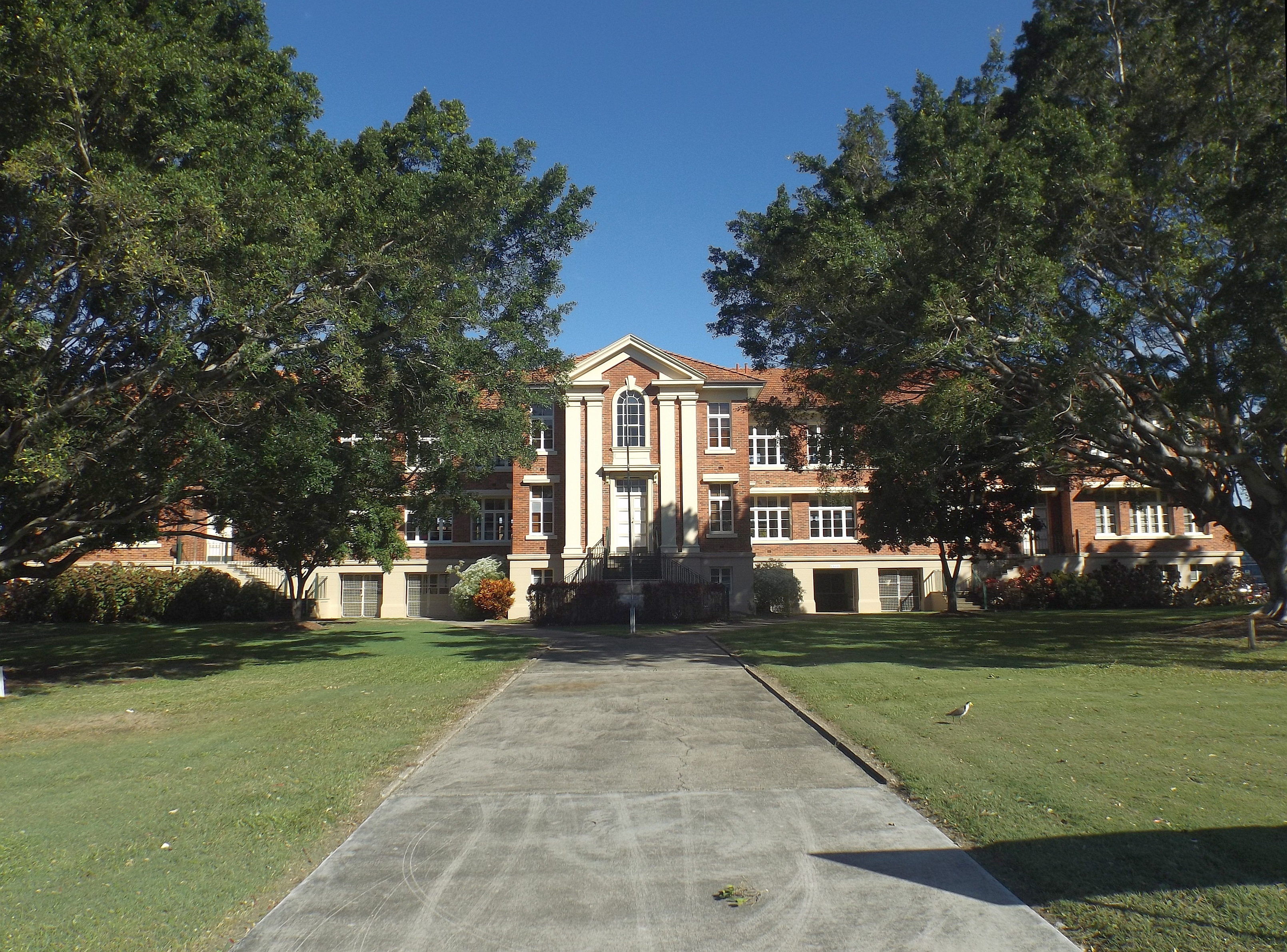 Photo of Stafford State School from Stafford Road at Stafford, Brisbane, Queensland, Australia.